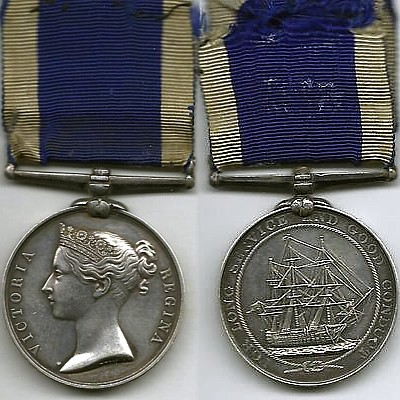 The first Queen Victoria version of the Naval Long Service and Good Conduct Medal (1848) with the 1½" wide suspender and the new 1½" wide ribbon with white edges